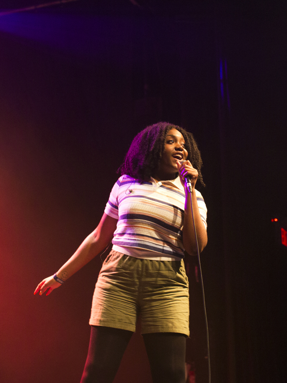 Noname (Fatimah Warner) performing at Phoenix Concert Theatre as part of the Telefone Tour on March 5, 2017. Toronto, ON, Canada.